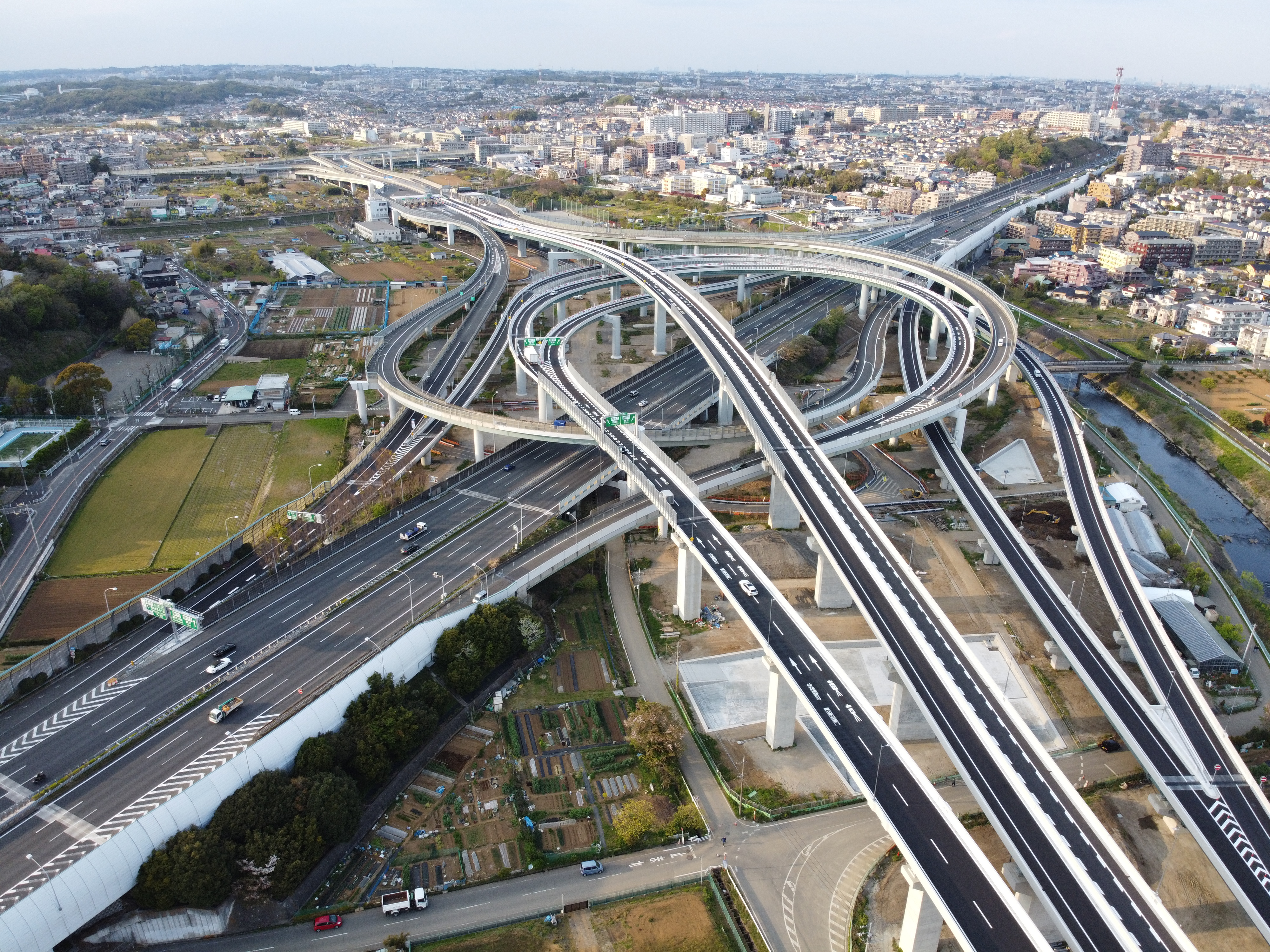 Aerial view of Yokohama Aoba Interchange